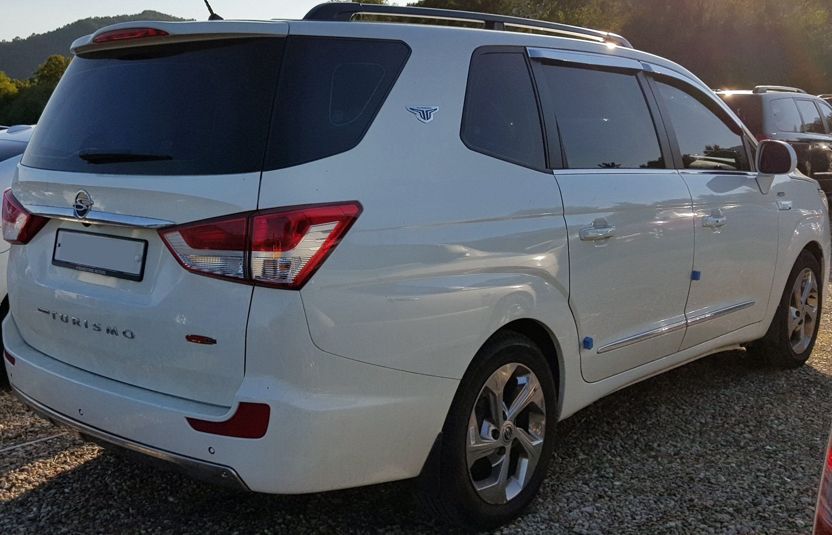 SsangYong Korando Turismo